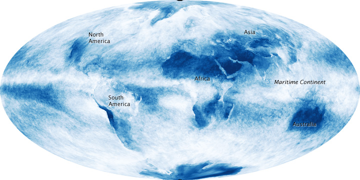 Clouds Can Reveal Shape of Continents NASA Earth Observatory image by Kevin Ward, based on data provided by the NASA Earth Observations (NEO) Project. Caption by Rebecca Lindsey. Instrument: Terra - MODIS